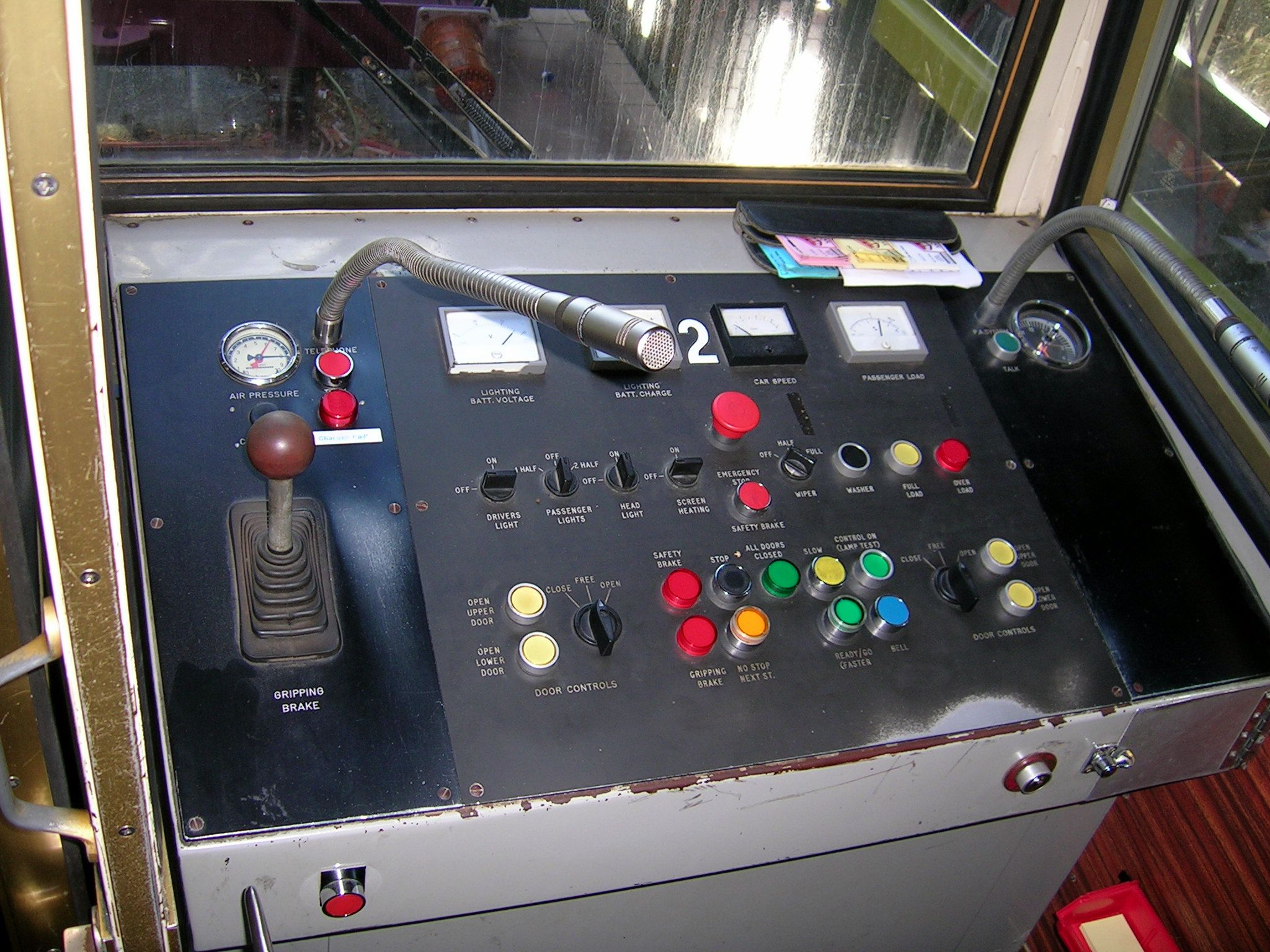 Control panel inside the Wellington Cable Car.Button, button, who's got the button?